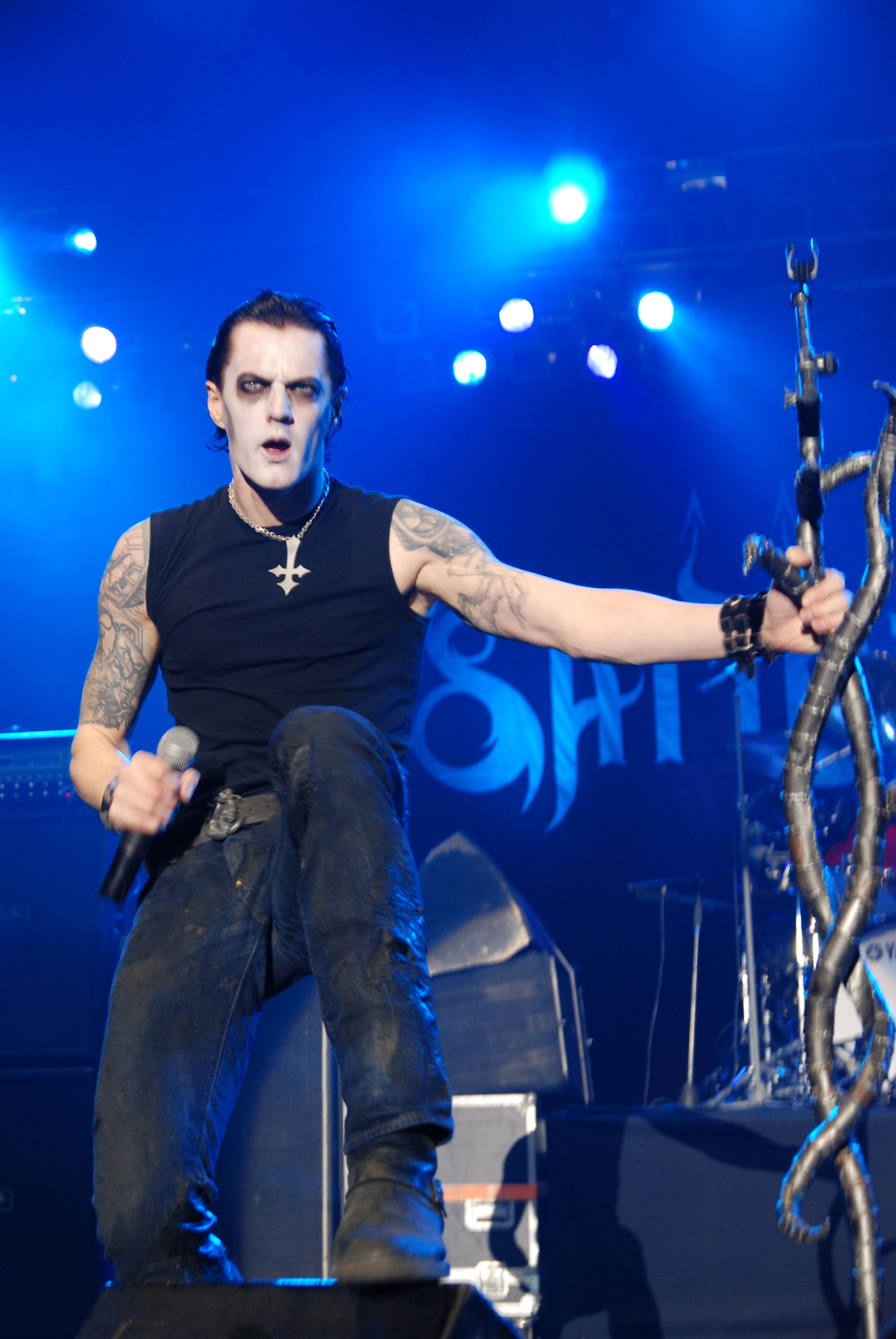 Sigurd Wongraven "Satyr" Satyricon during Metalmania 2008 festival